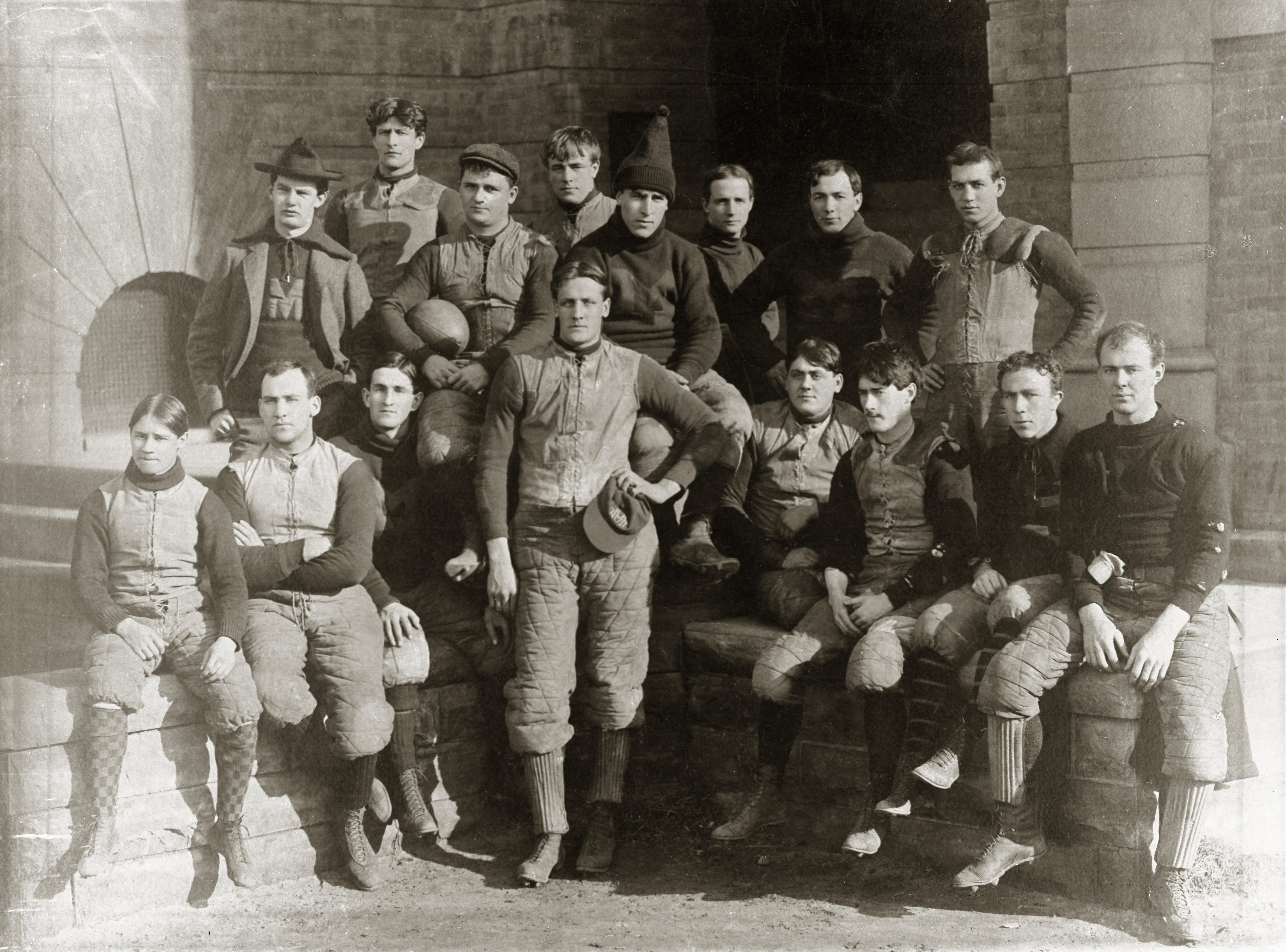 Official photograph of 1896 University of Michigan football team